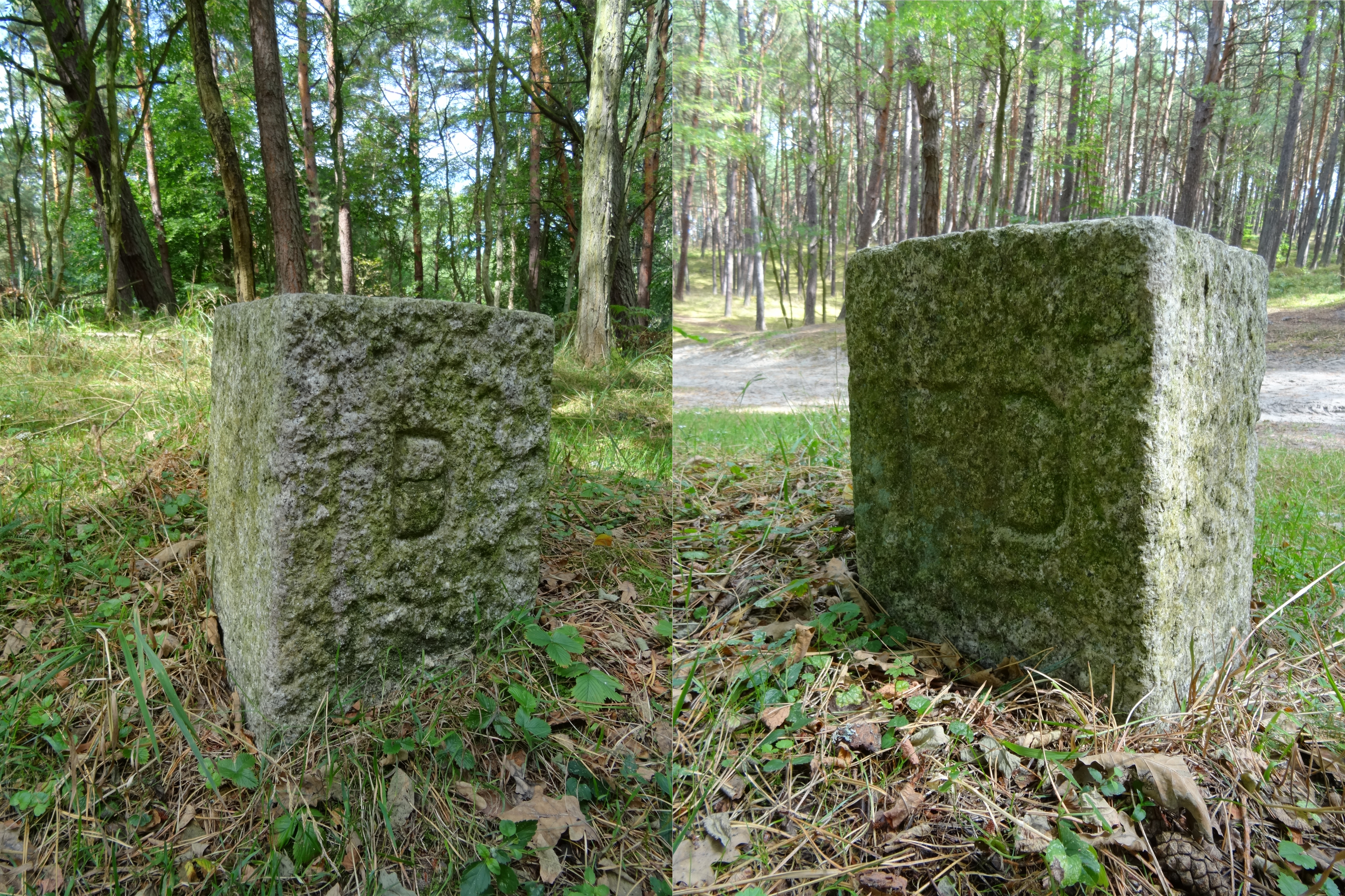 Boundary stone Freie Stadt Danzig-Deutschland in Przebrno (Pröbbernau). (FD - Freie Stadt Danzig), (D - Deutschland) The border existed in this place 24.12.1920-1.9.1939